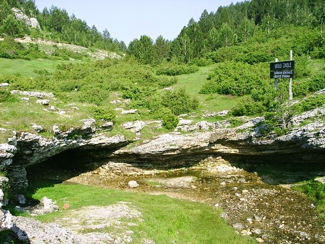 Jasle creek karst spring near Masna Luka in Bosnia and Herzegovina